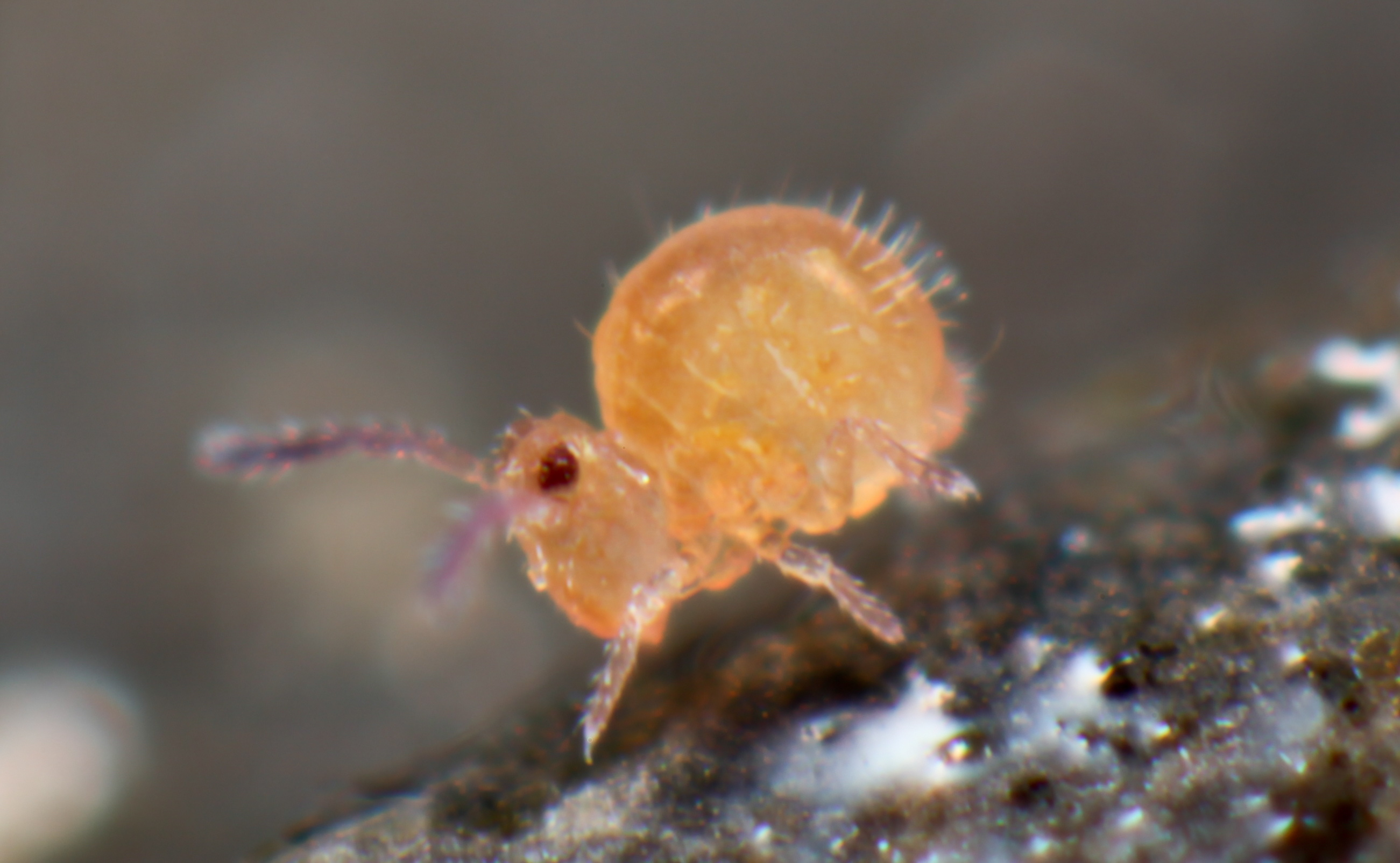 Sphaeridia pumilis from the UK.